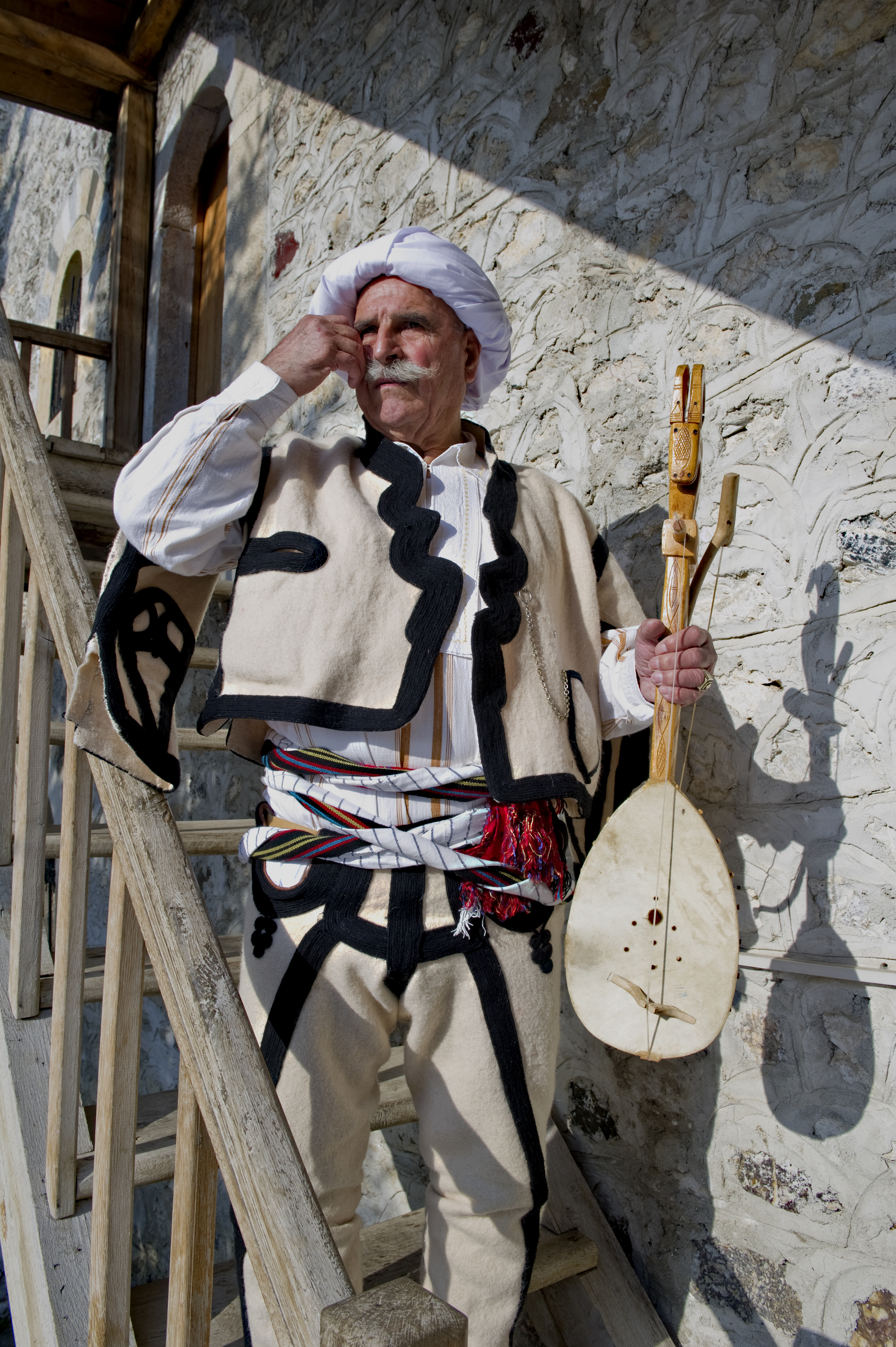 Lahuta